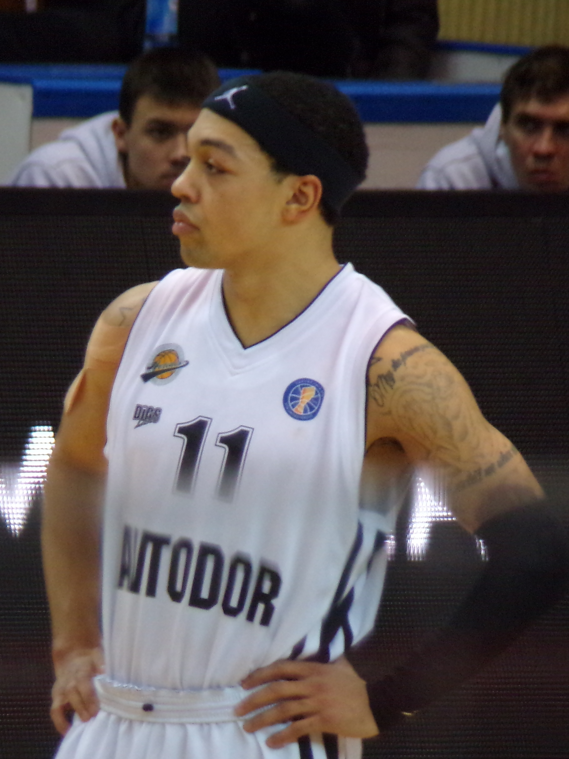 Justin DeVaughn Robinson